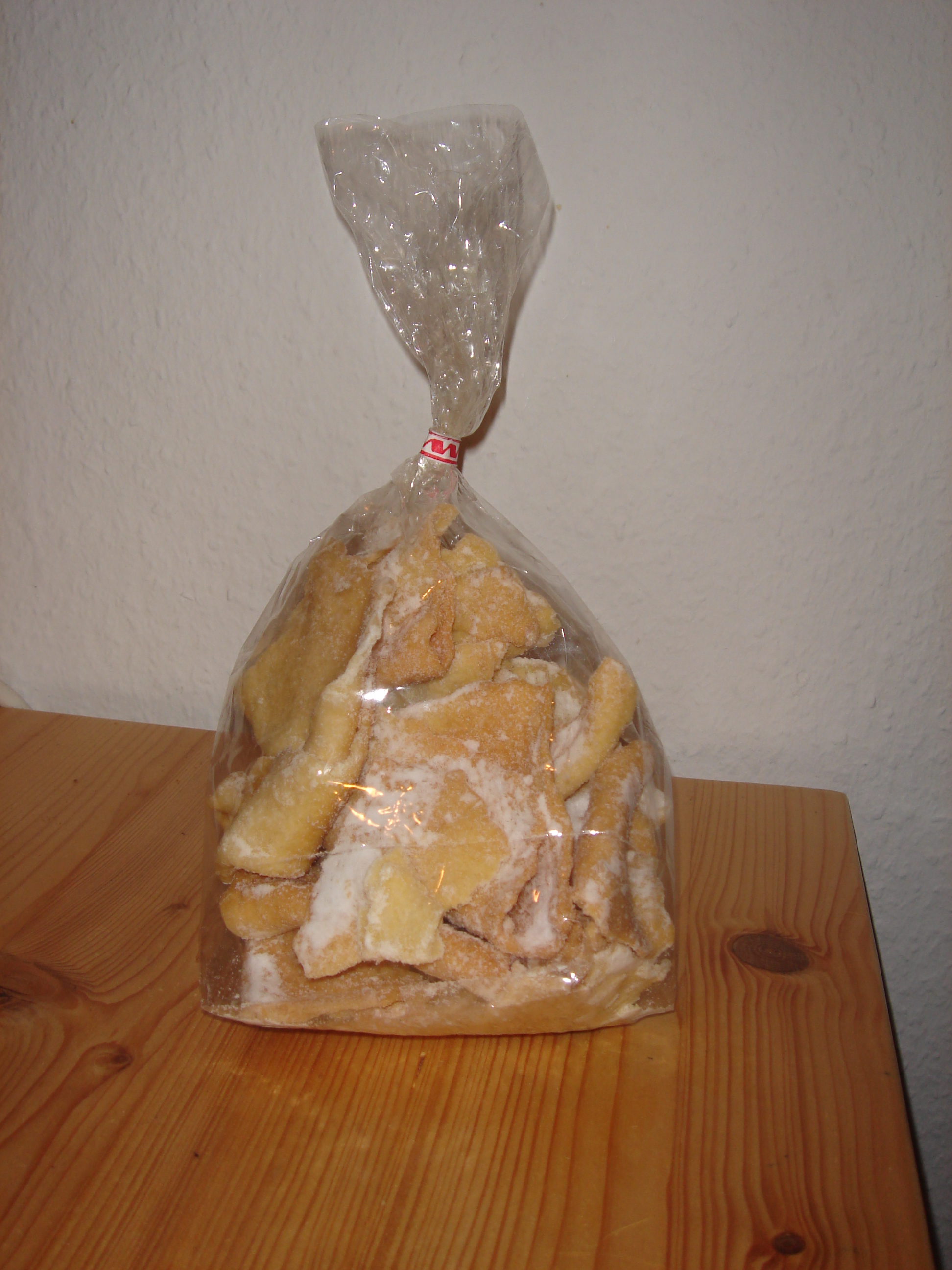 A bag of Muzen, sweet cakes from the Rhineland.